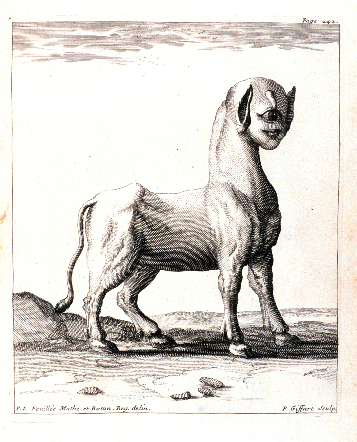 "A Monster Born of a Ewe". In: "Journal des Observations Physiques, Mathematiques et Botaniques ...." by Louis Feuillee, 1660-1732.